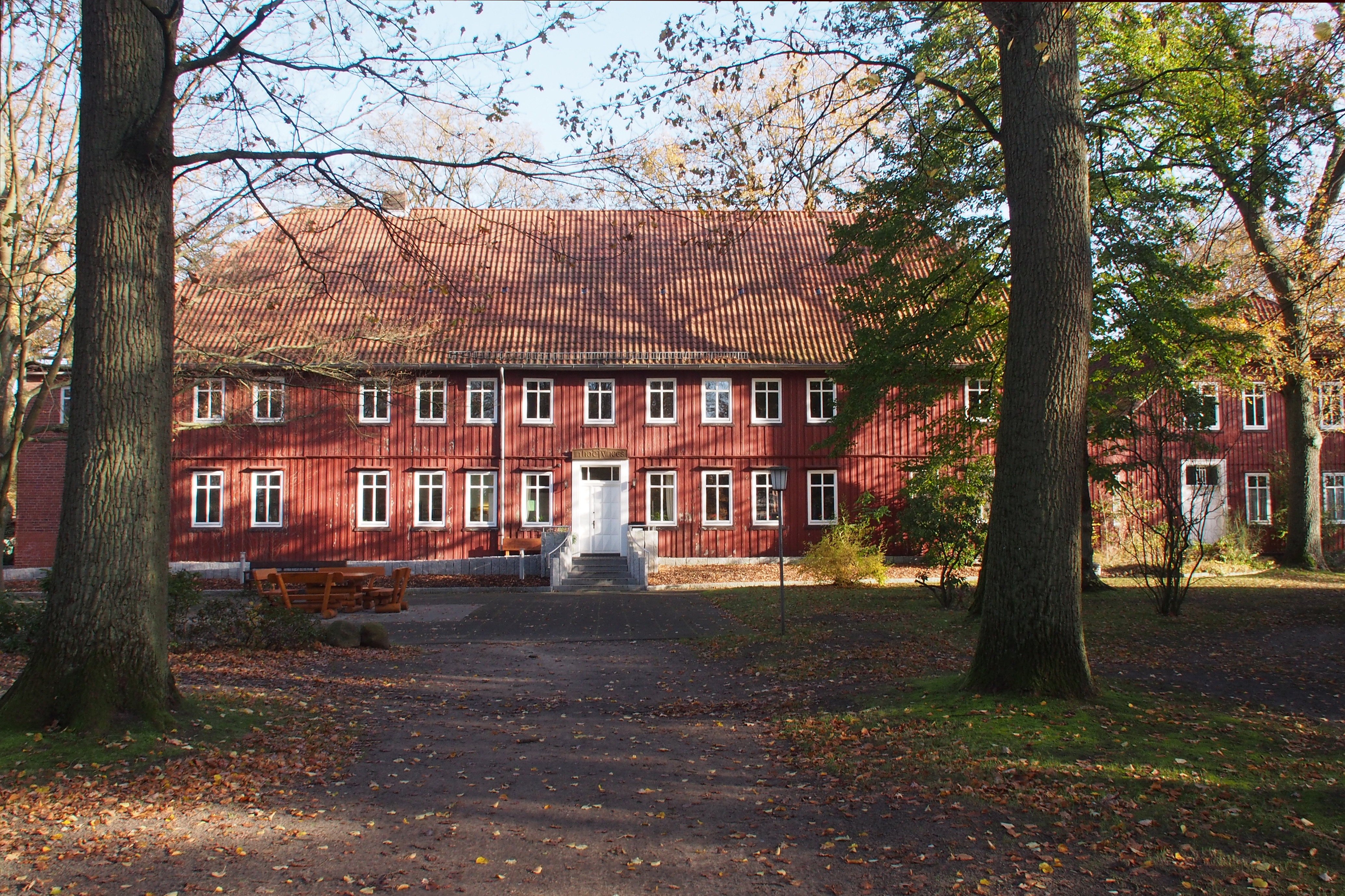 Administrtion, Dinning Hall and Faculty Offices of Fachhochschule für Interkulturelle Theologie